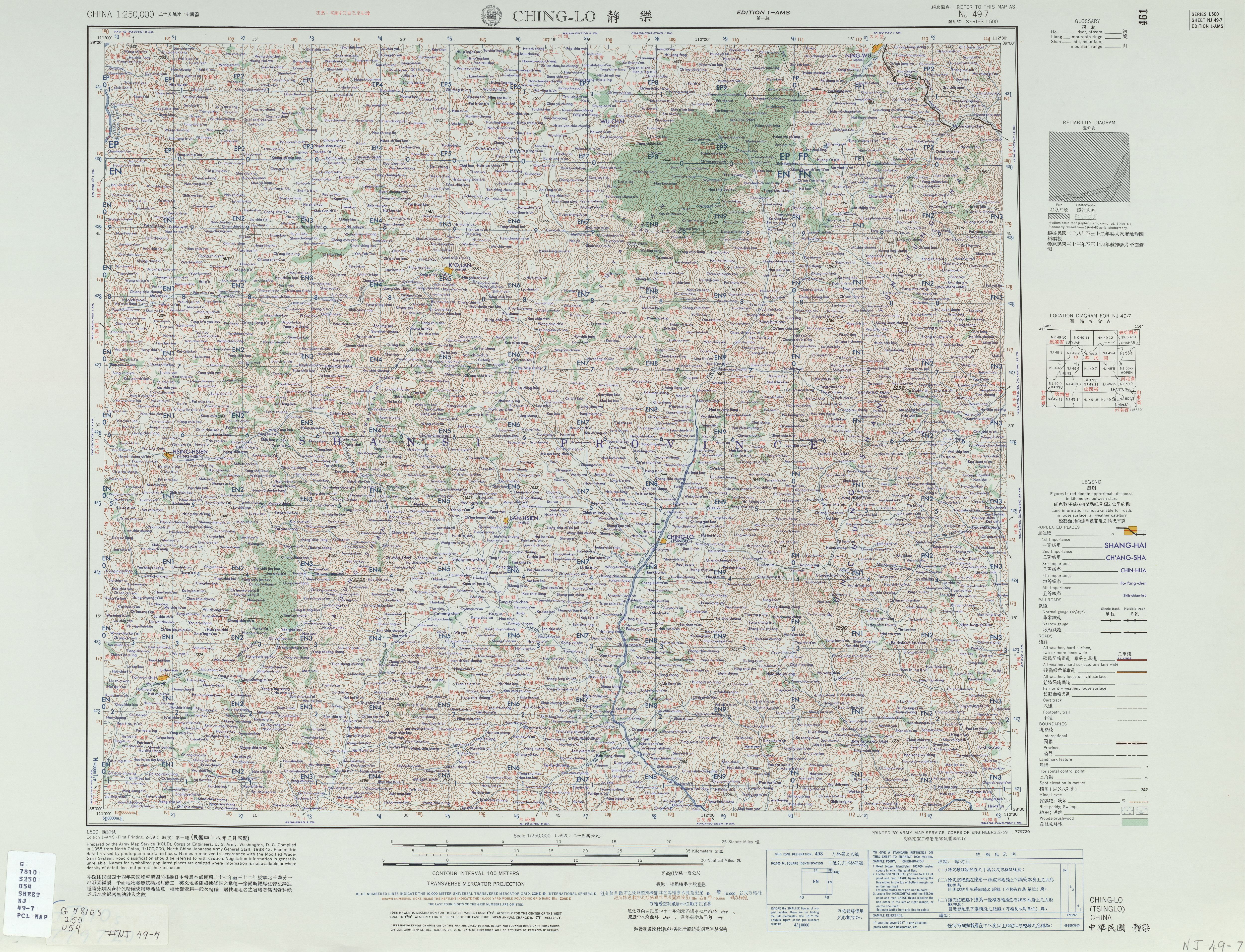 China AMS Topographic Maps